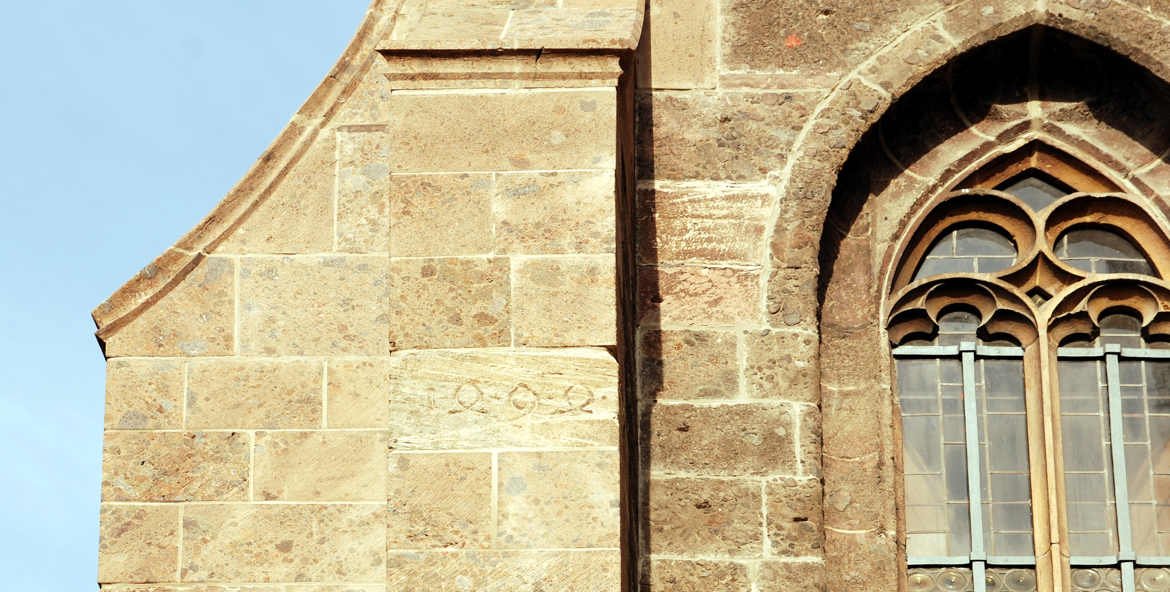 Breisach Minster east wall. Construction date of the sacristy.